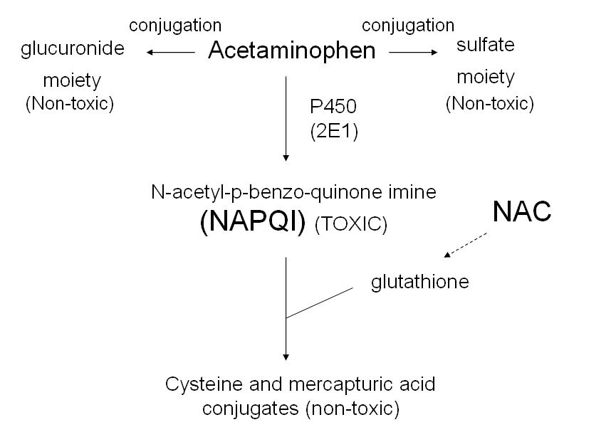 Schematic of the metabolism of acetaminophen (paracetamol) by the hepatocyte. Acetaminophen is predominantly conjugated into glucuronate and sulfate moieties by Phase II metabolism. A small percentage is metabolized by the cytochrome P450 pathway to a toxic metabolite, NAPQI. NAPQI is conjugated by glutathione to non-toxic cysteine and mercapturic acid moieties. In cases of acetaminophen toxicity, the Phase II conjugation enzymes are saturated, and a higher fraction is converted to NAPQI. The conjugation of NAPQI to these metabolites occurs until glutathione is depleted from hepatic reserves, after which the toxic NAPQI accumulates and causes damage to the hepatocytes. AcetylcysteineN-acetylcysteine or NAC is a glutathione precursor and functions by repleting glutathione stores. Alcoholics are particularly susceptible to acetaminophen toxicity as the P450 enzymes are upregulated in the setting of chronic alcohol use.